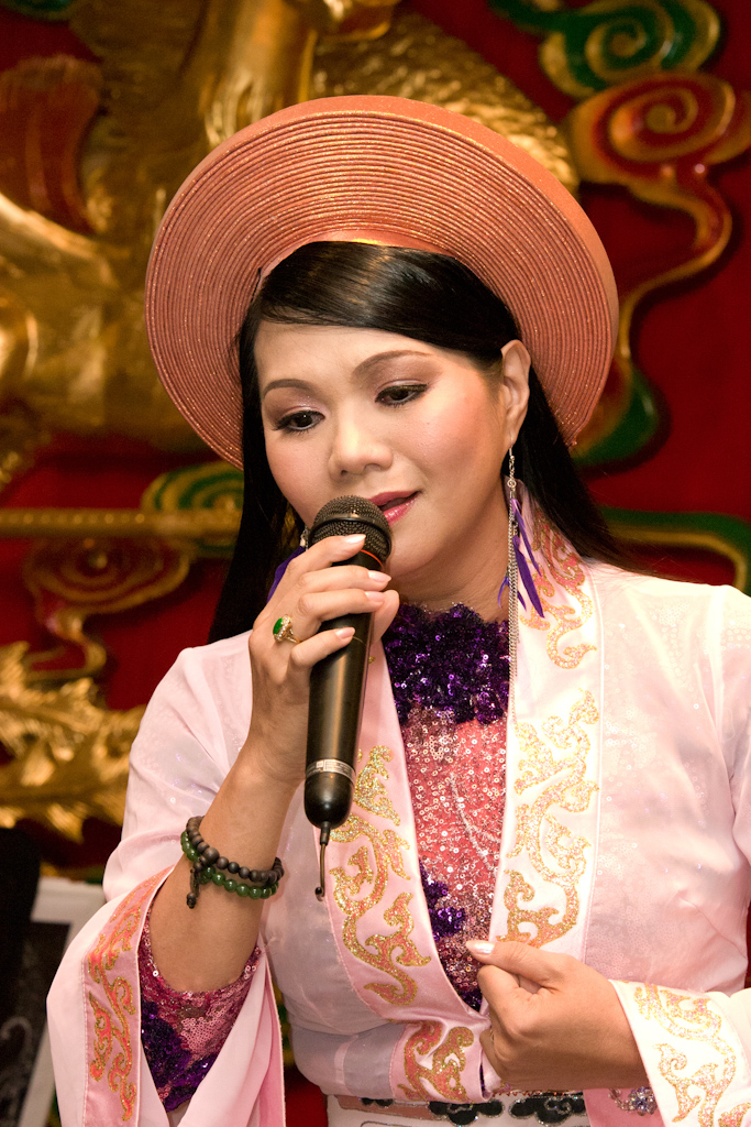 Vietnamese singer Ngoc Huyen (Fundrasing help to build a temple Vien An)